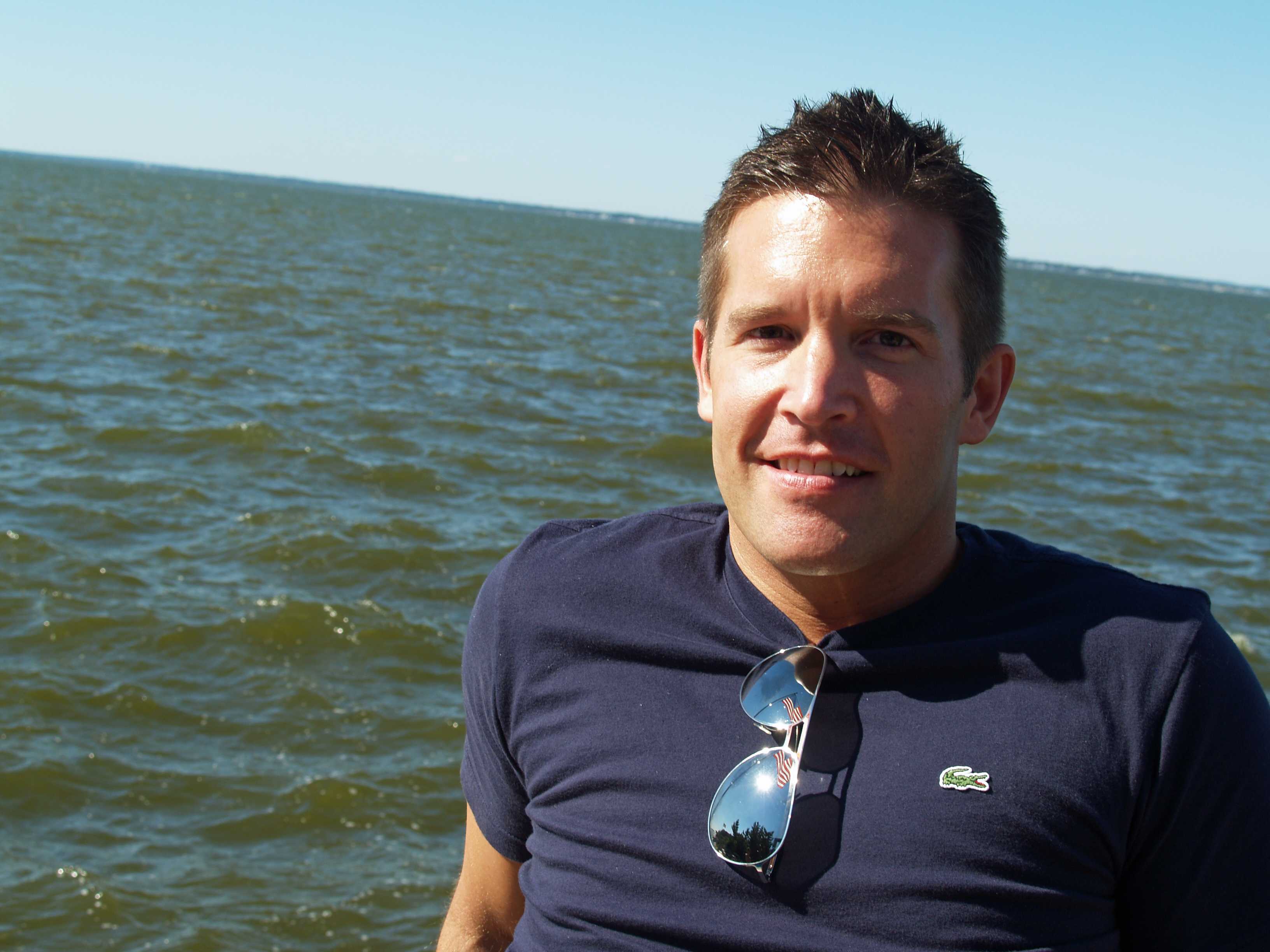 Andy Towle on the Great South Bay of Long Island in Fire Island Pines